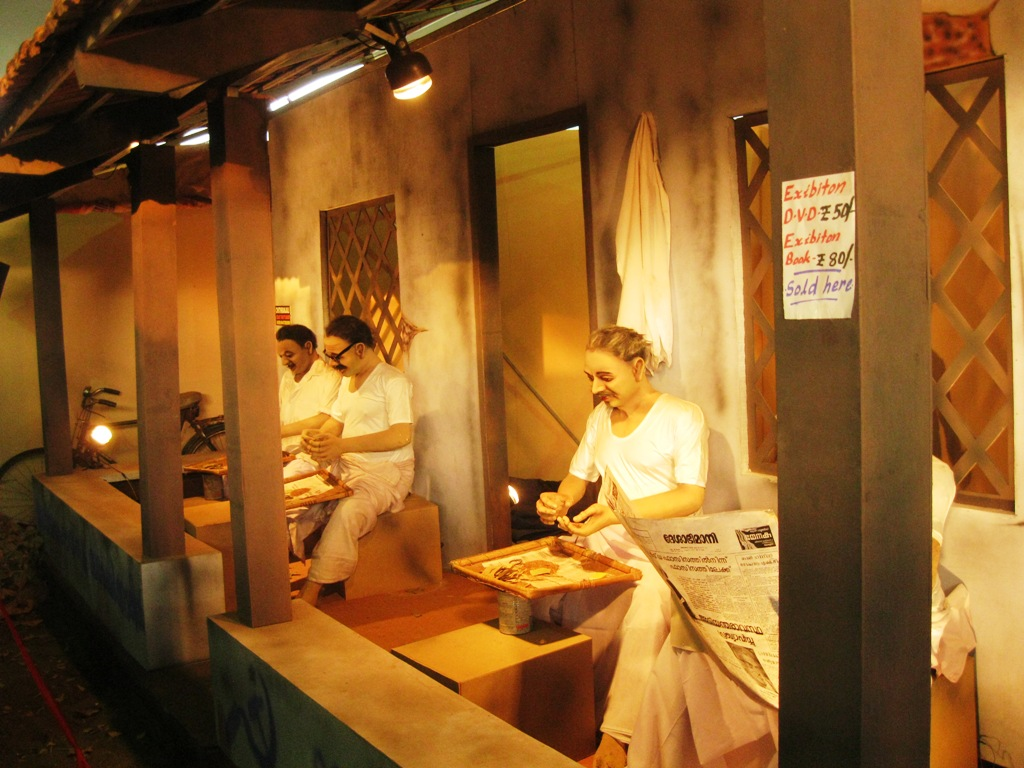 beedi workers instaletion